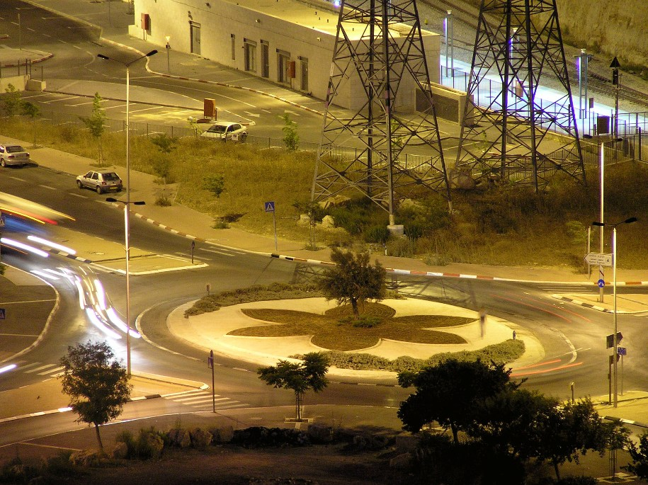 The square close to the railway station in Malha, Jerusalem, Israel